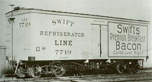 One of the first cars out of the Detroit plant of American Car & Foundry (formerly Peninsular Car Company). Built in 1899 for Swift Refrigerator Line. Chicago Historical Society photo. image URL